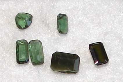 Actinolite cut from Minas Gerais, Brazil. Gem cutting by Afonso Marques